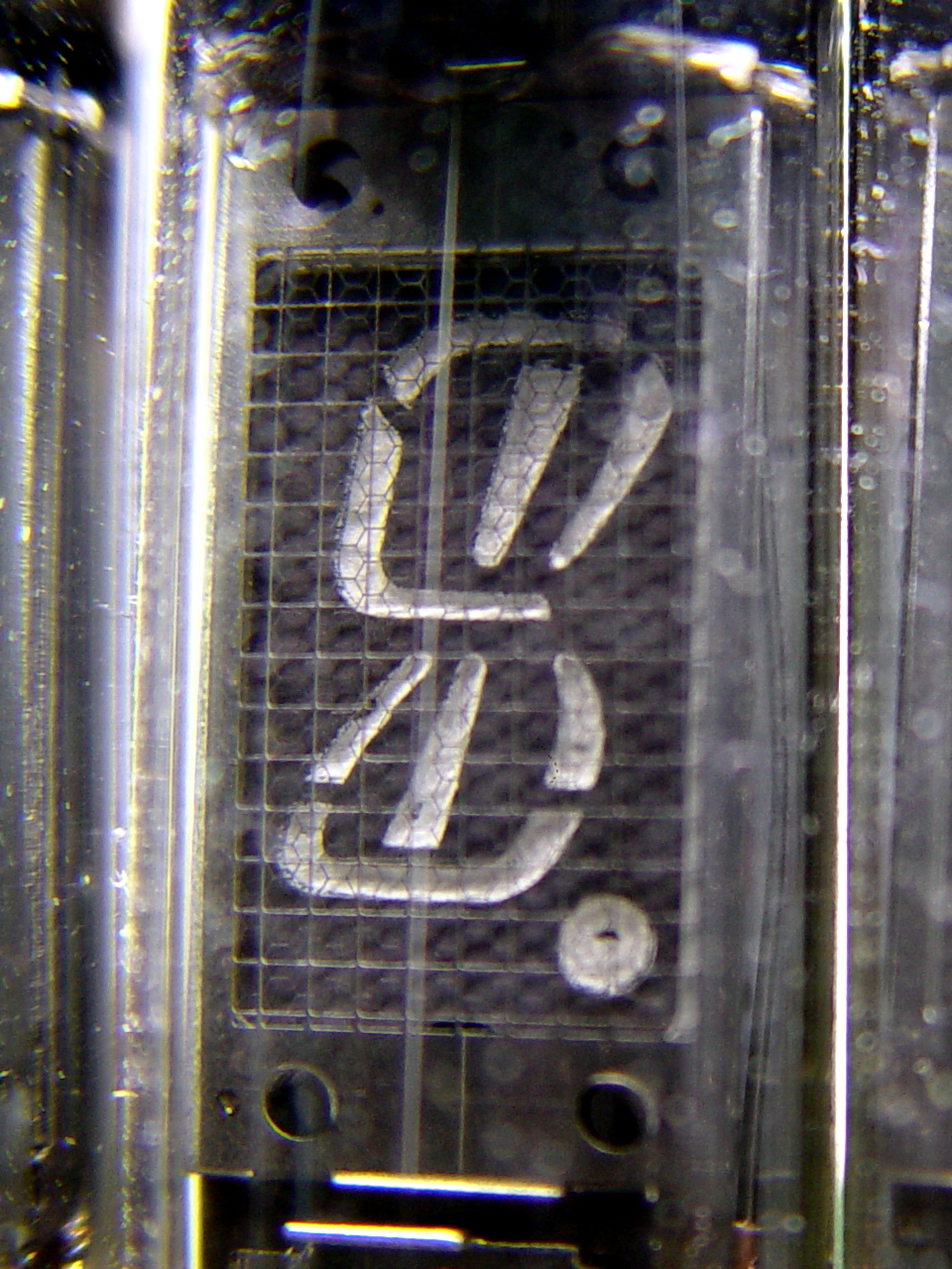 Note the strange shape of the numerals and the half-height zero